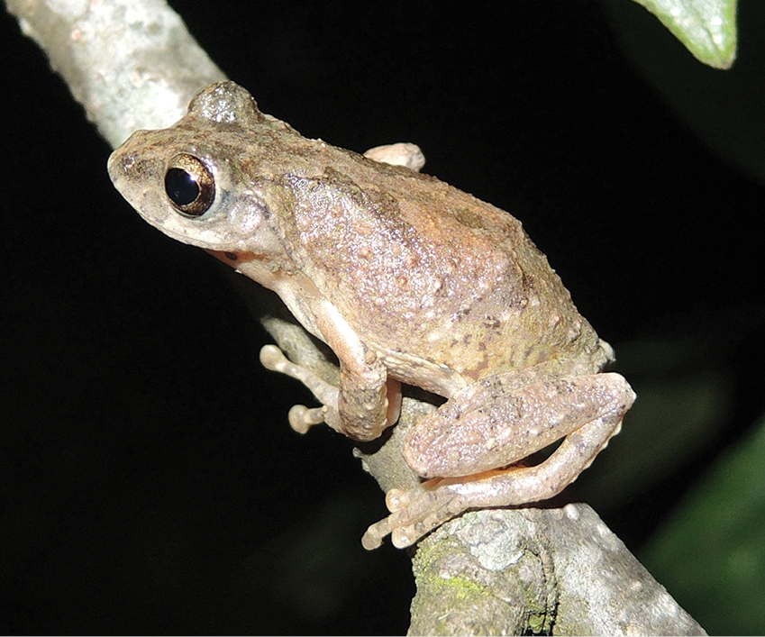 Lateral view of holotype of Kurixalus lenquanensis